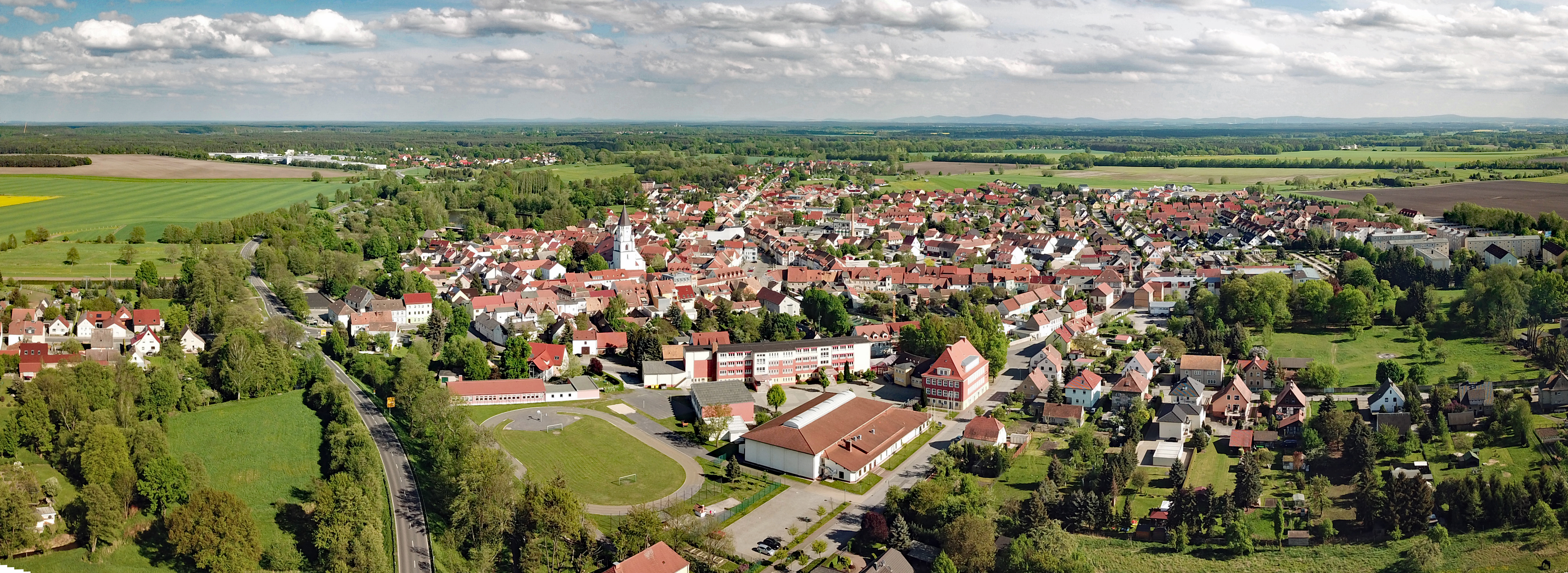 Wittichenau (Saxony, Germany) Hornjoserbsce: Powětrowy wobraz Kulowa